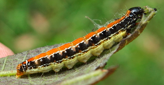 Hyblaea puera (The Teak Defoliator) (1)